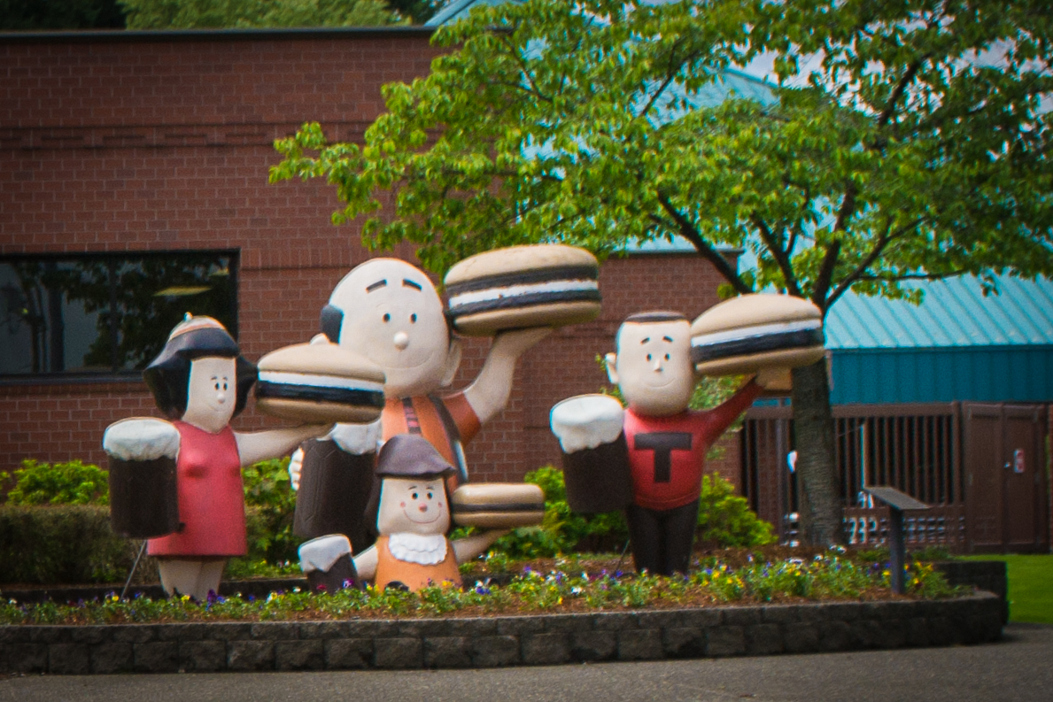 The A&W Burger Family from a 1950s era hamburger restaurant, donated to the people of Hillsboro in 1990.